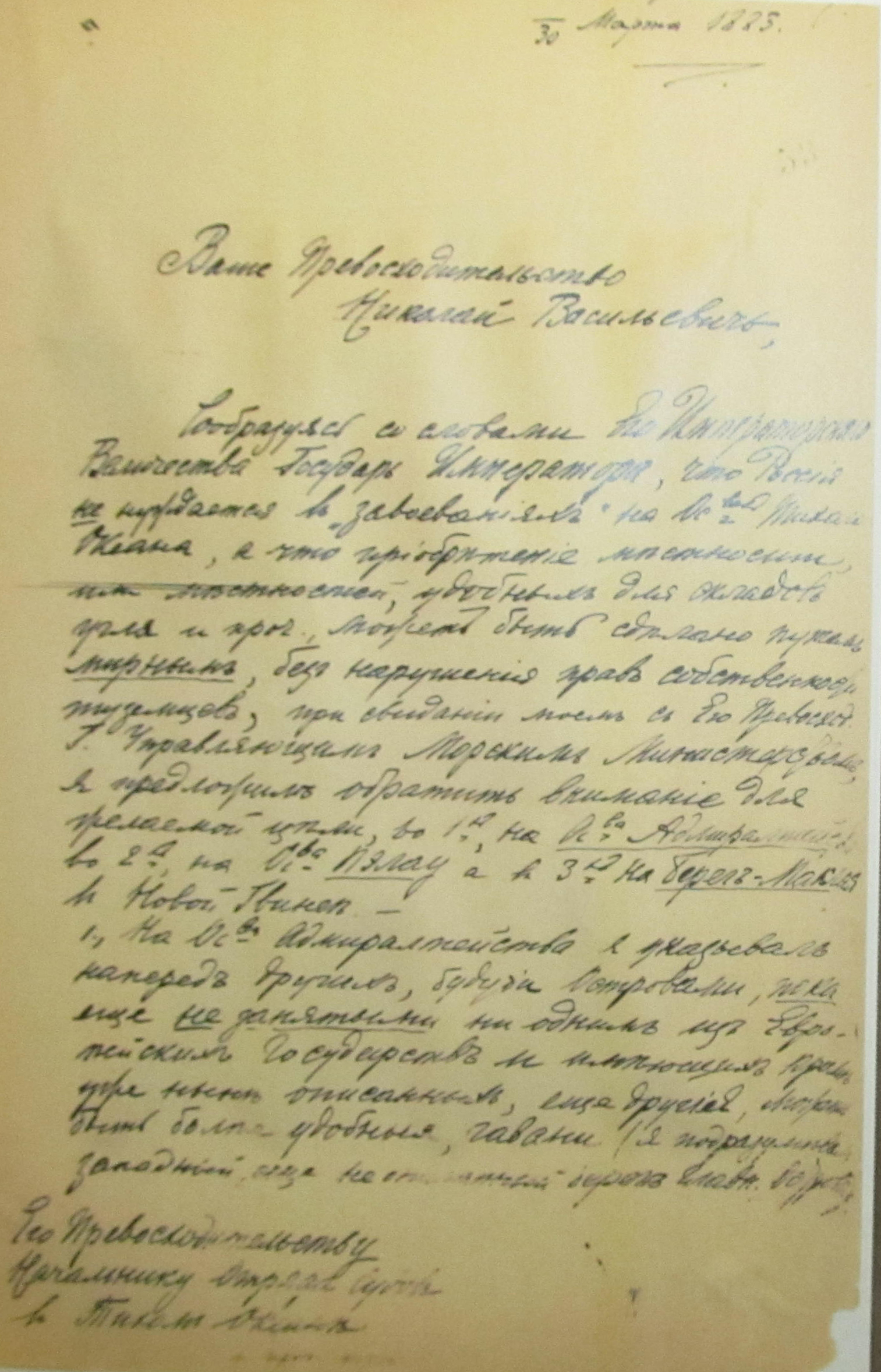 Miklouho-Maclay Letter about Pacific Ocean, 30 Mar 1873